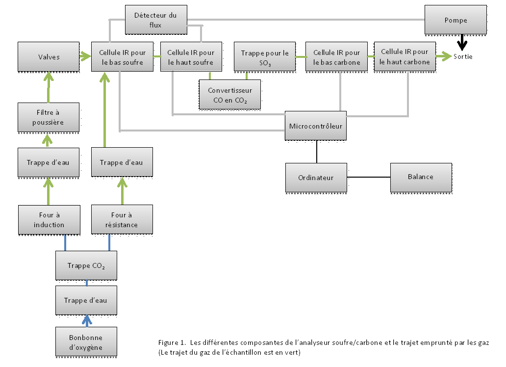 Les différentes composantes de l’analyseur soufre/carbone et le trajet emprunté par les gaz (Le trajet du gaz de l’échantillon est en vert)